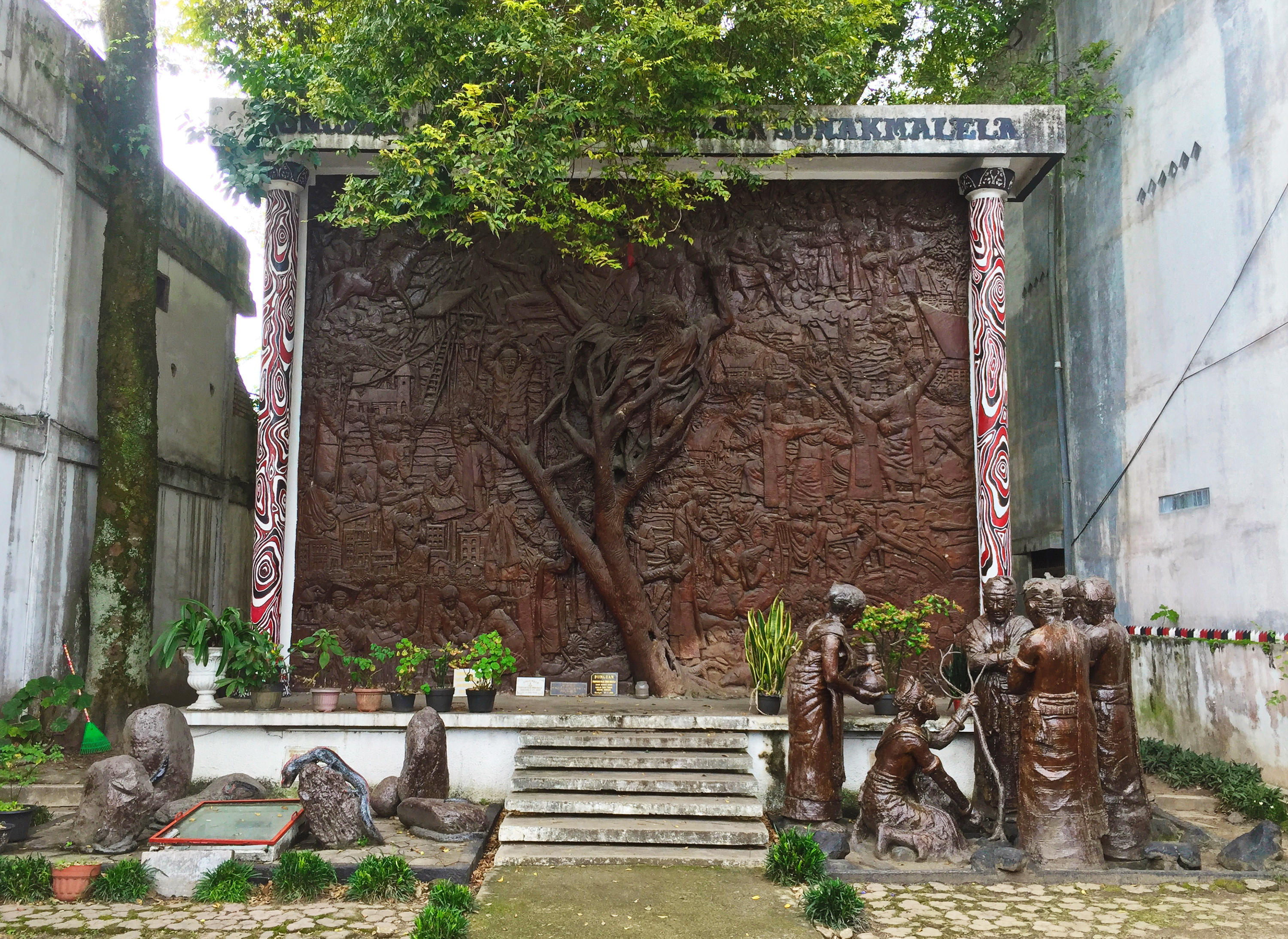 Monument of Sonakmalela in Balige, Toba Samosir